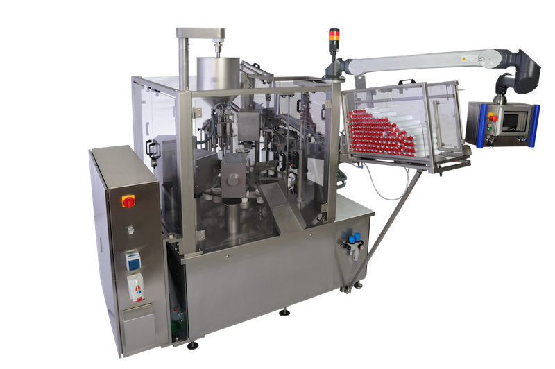 Modern Tube Filling Machine